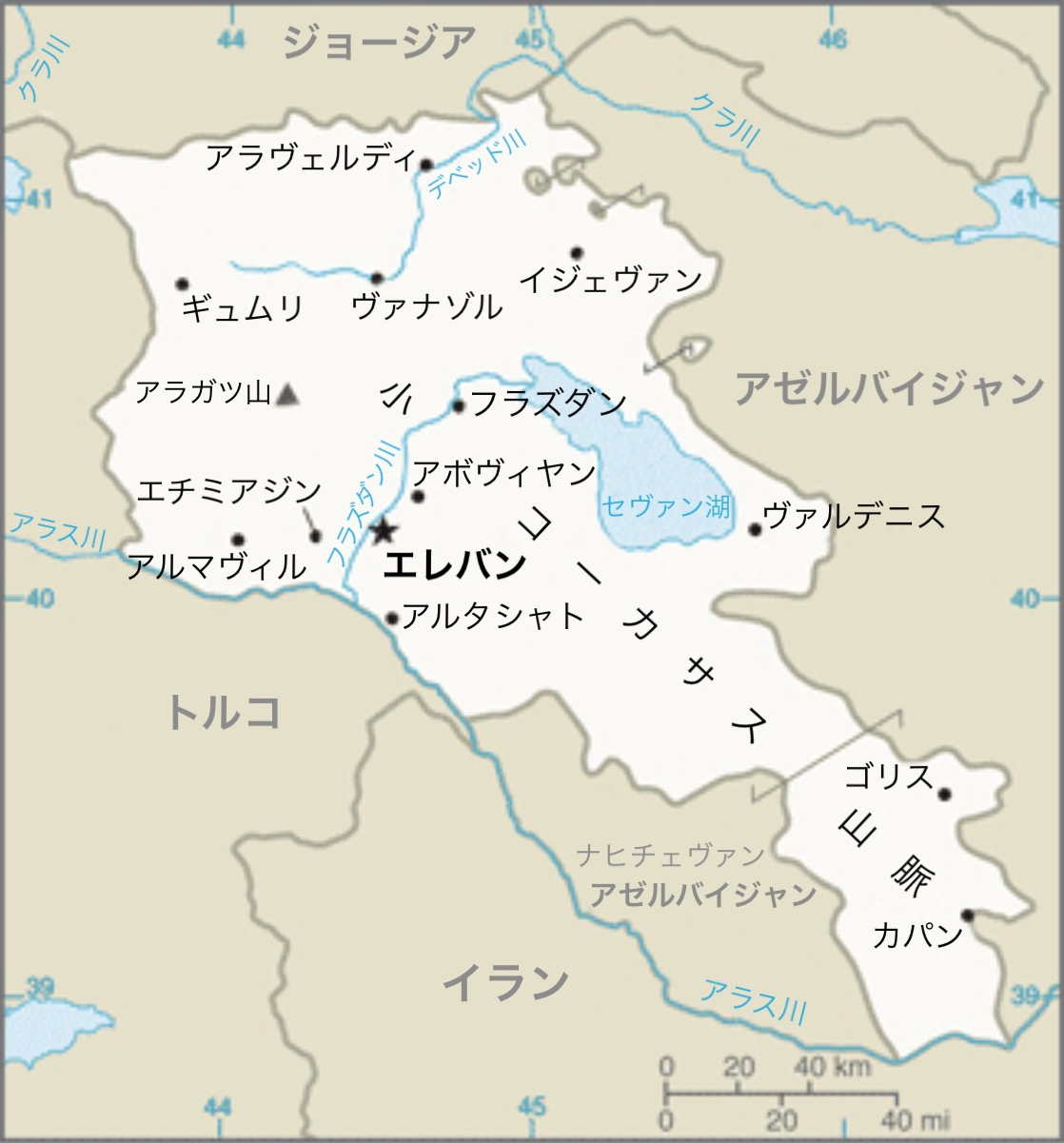 Map of Armenia in Japanese (from CIA World Factbook)